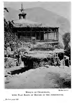 the photo of Chaqchan mosque (old mosque in Khaplu) has taken in 1903 by author Dunkan and it comes in public domain